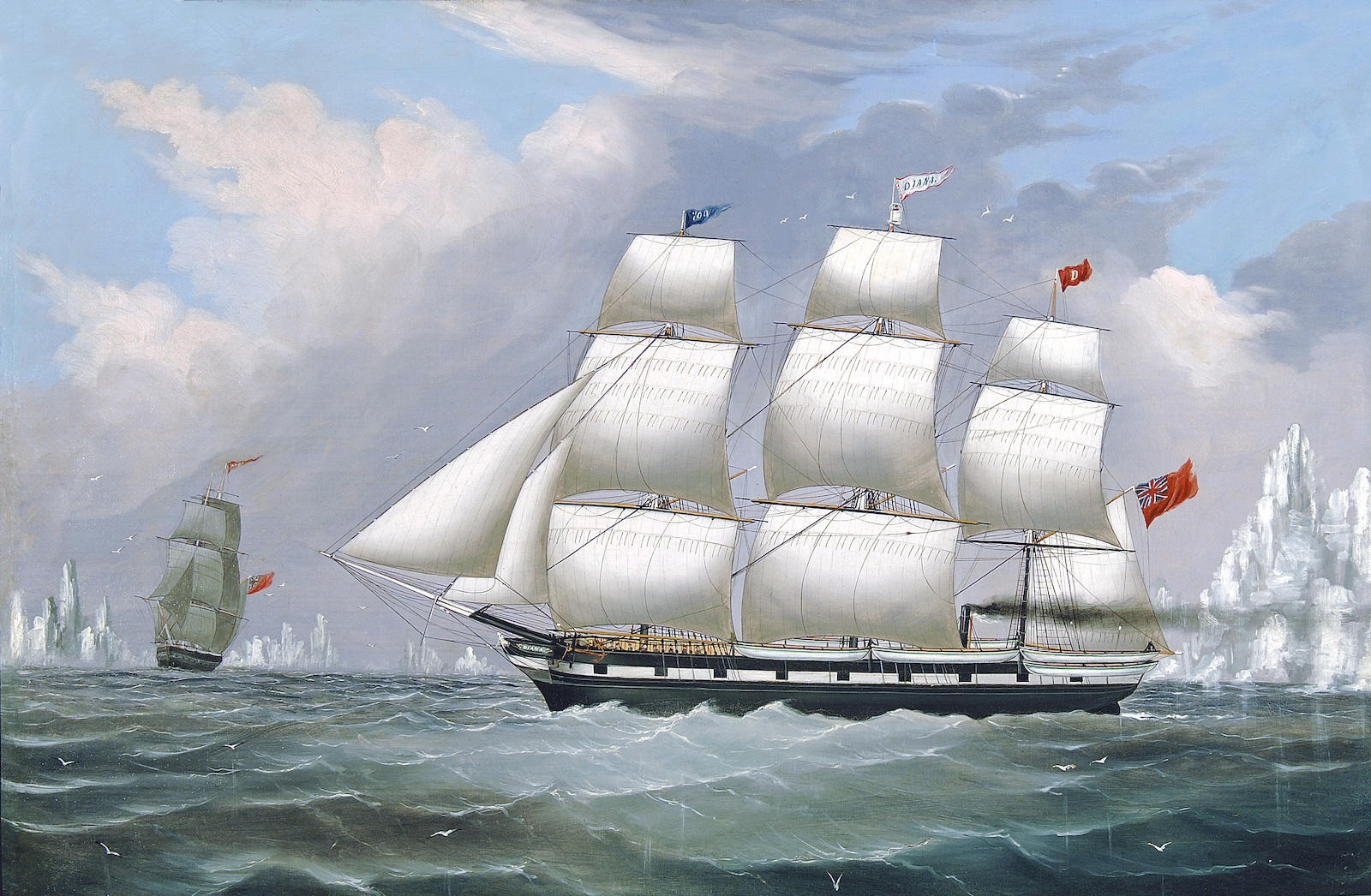 The Diana was a 350 ton German built steam/sail whaler. Based out of Hull and under the command of Captain John Gravill she is remembered for an ill-fated 14 month voyage in 1866-7 where she was icebound for six months. 13 crew members including the Captain did not survive. In 1868 she was wrecked off the Lincolnshire coast signalling the end of Hull's whaling trade.